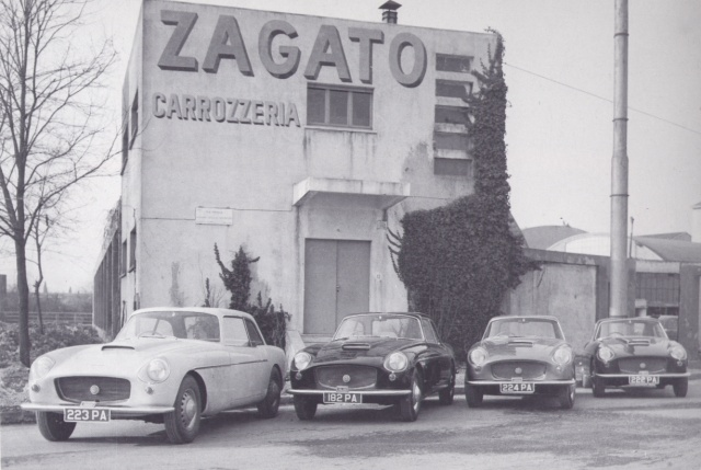 Four (out of six made) of the Bristol 406 automobile, special body coachwork by Zagato of Milano, here at 16 Via Giorgina in Milano, which was the factory headquarters 1945 to around 1960. These Bristols were commissioned by London dealer Anthony Crooke (and Bristol owner). [1] UK license numbers "223 PA", "182 PA", "224 PA" and "222 PA". Since Bristol 406 was made 1958 to 1961, the time of this picture could be 1959.